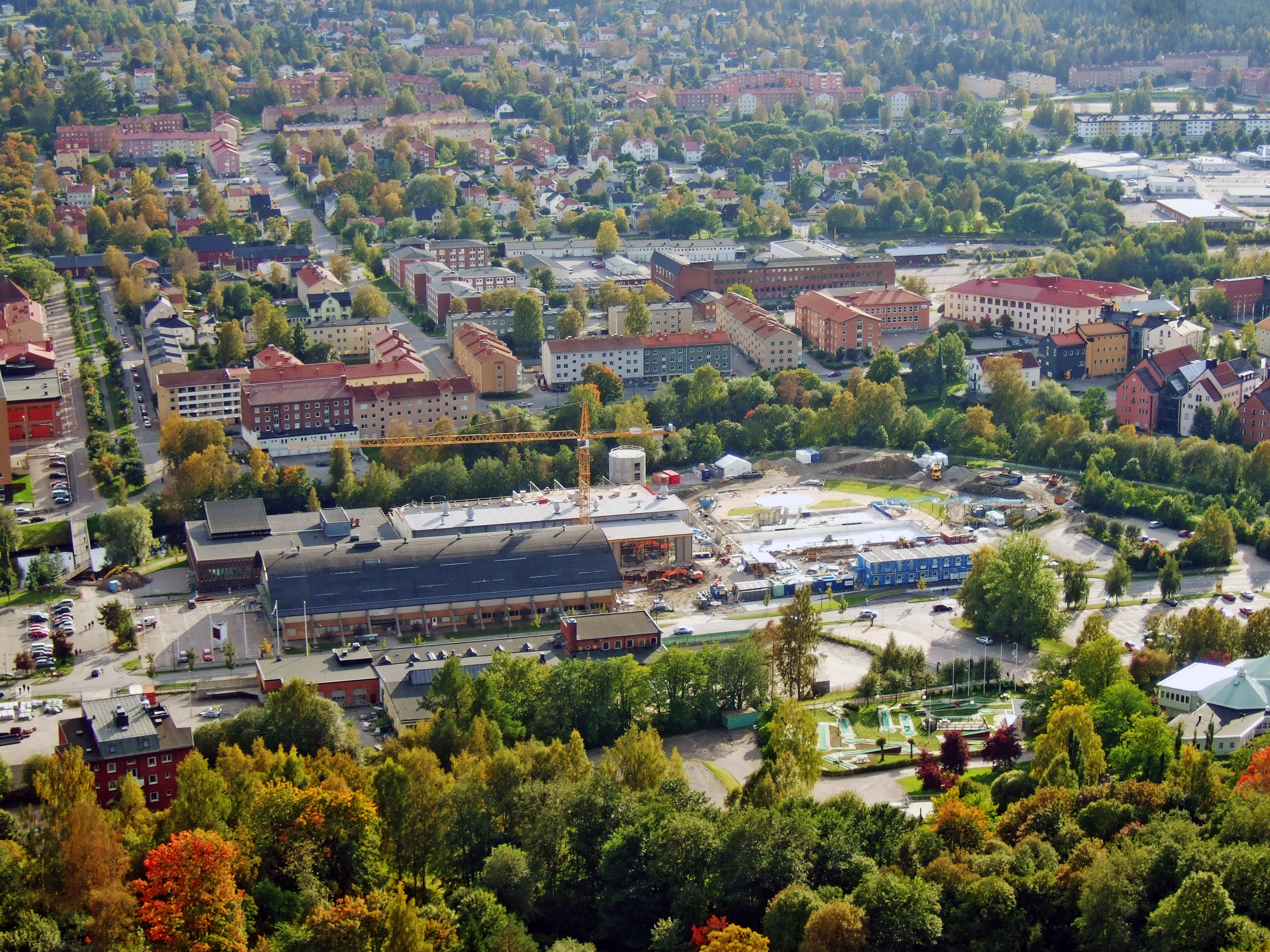 The sports venue "Sporthallen" at Universitetsallén 11 in Sundsvall. Mountain view from northeast during construction of bath house extension.